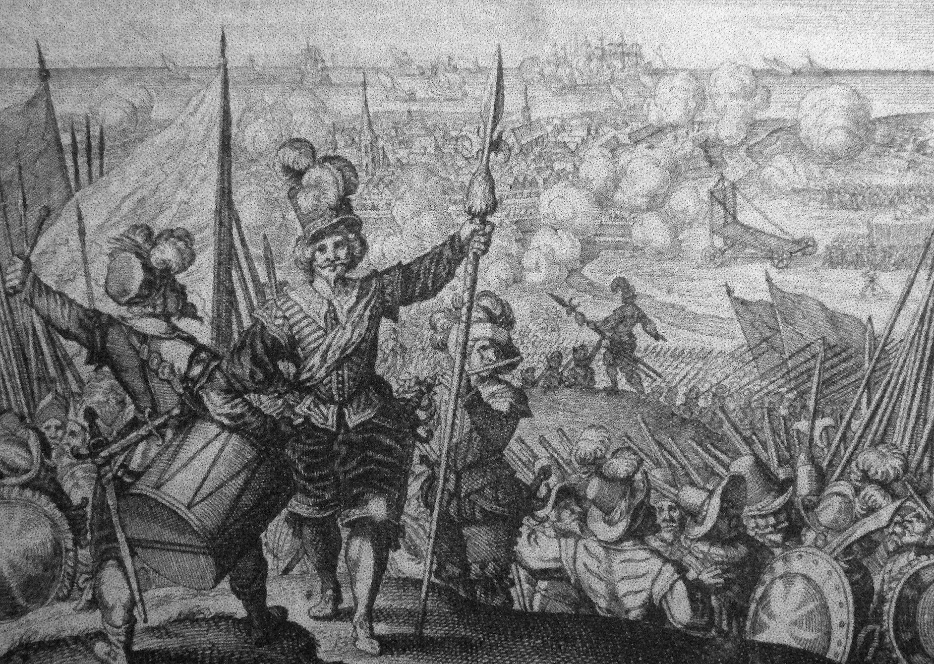 Siege of Ostend (1601-1604) by Spanish troops